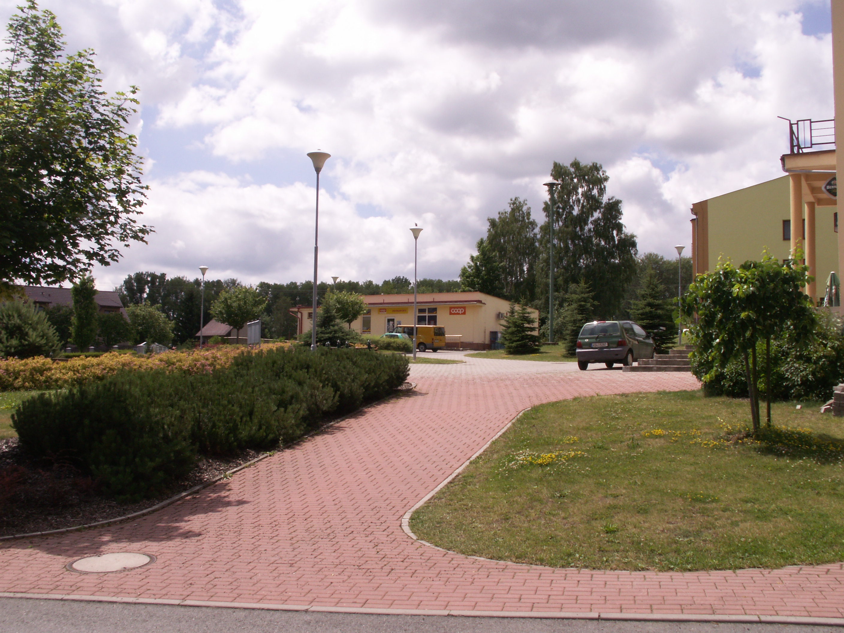 KONICA MINOLTA DIGITAL CAMERA, obec Oudoleň, okres Havlíčkův Brod, náves před kulturním domem s prodejnou Coop